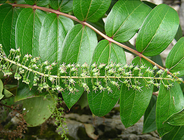 Known as Deu or as Matarratones and employed as a rat poison. In context at